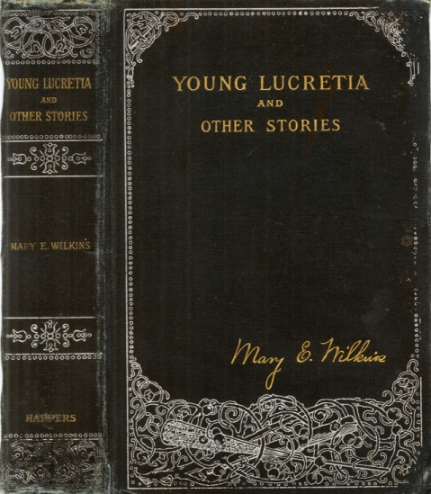 Book cover from Young Lucretia and Other Stories, a collection of stories by Mary Eleanor Wilkins Freeman.